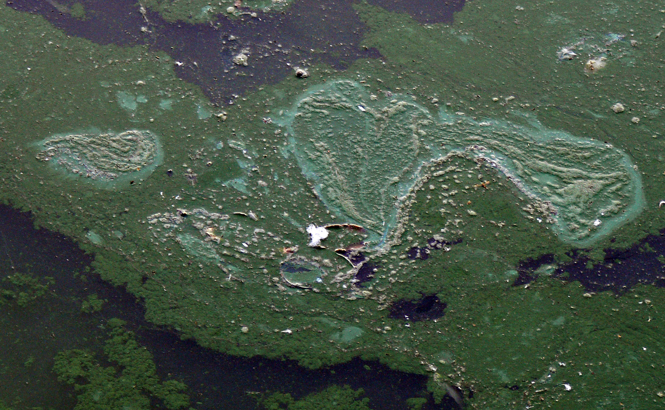 Bloom of cyanobacteria ("blue-green algae"). traces shaped streaks are traces of fish and ducks that run on water, "breaking" the biofilm. The samples emit a strong odor of algae (spirulina type). blue is "a priori" to areas of accumulation of blue pigments released by dead bacteria. Location: "Quai du Wault" in Lille, not far from downtown (north of France; Location vai google maps: 50.637485,3.05425)